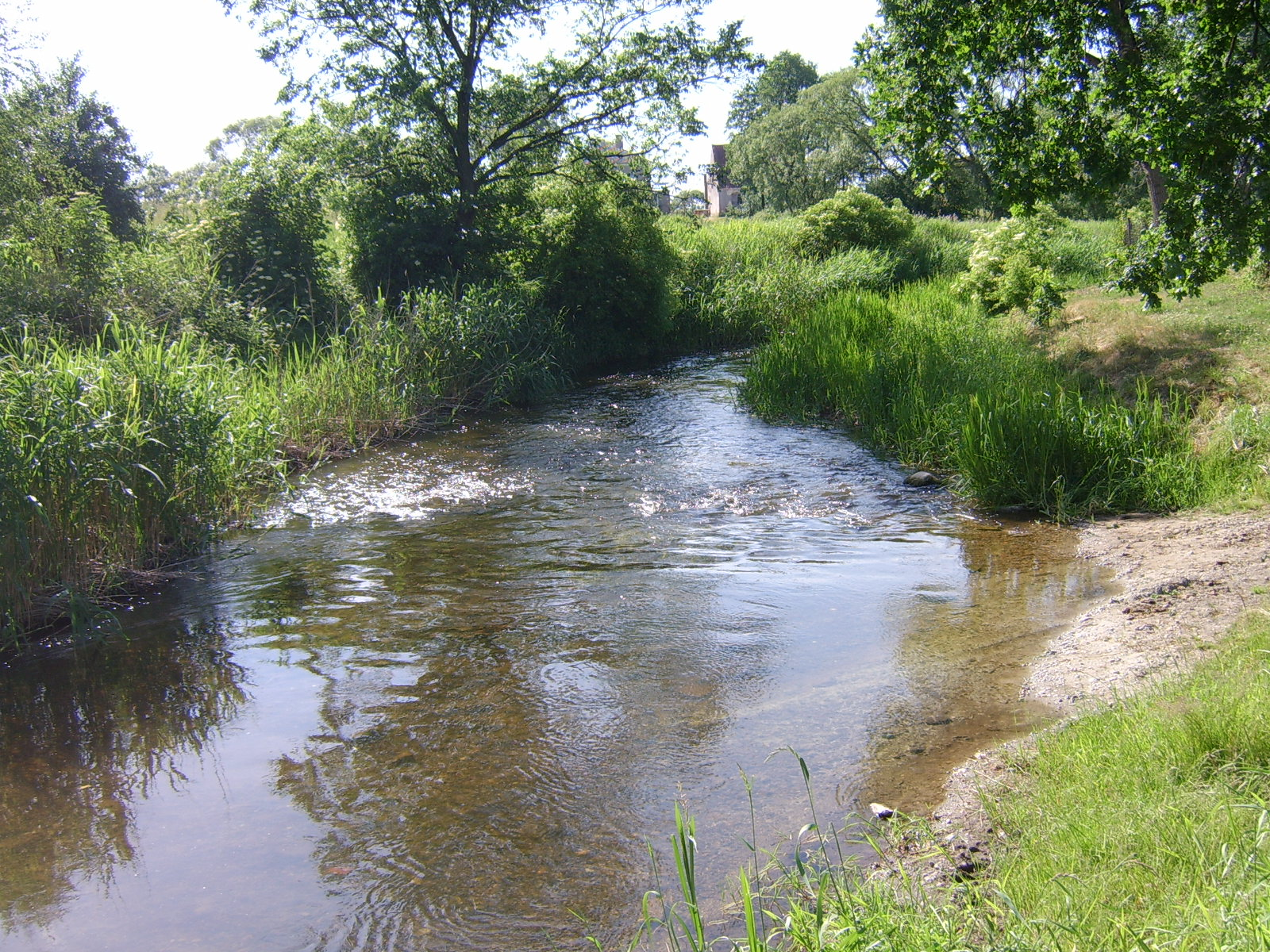 Orzysza w miejscowości Mikosze